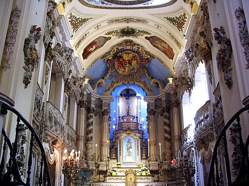 Picture from the church Igreja Nossa Senhora Mãe dos Homens located in Rio de Janeiro, Brazil. Cultural and historical heritage. Foto da Igreja de Nossa Senhora Mãe dos Homens, localizada no Rio de Janeiro, Brasil. Patrimônico cultural e histórico. Rua da Alfândega, n.54, Centro.